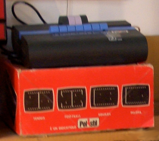 Italian console "Video Games" produced by Polistil Since 1978